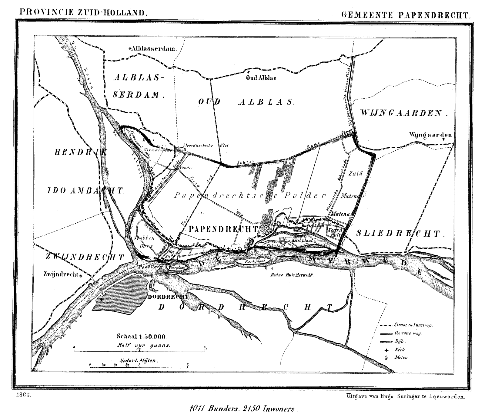 Historic map of Papendrecht, South Holland, the Netherlands